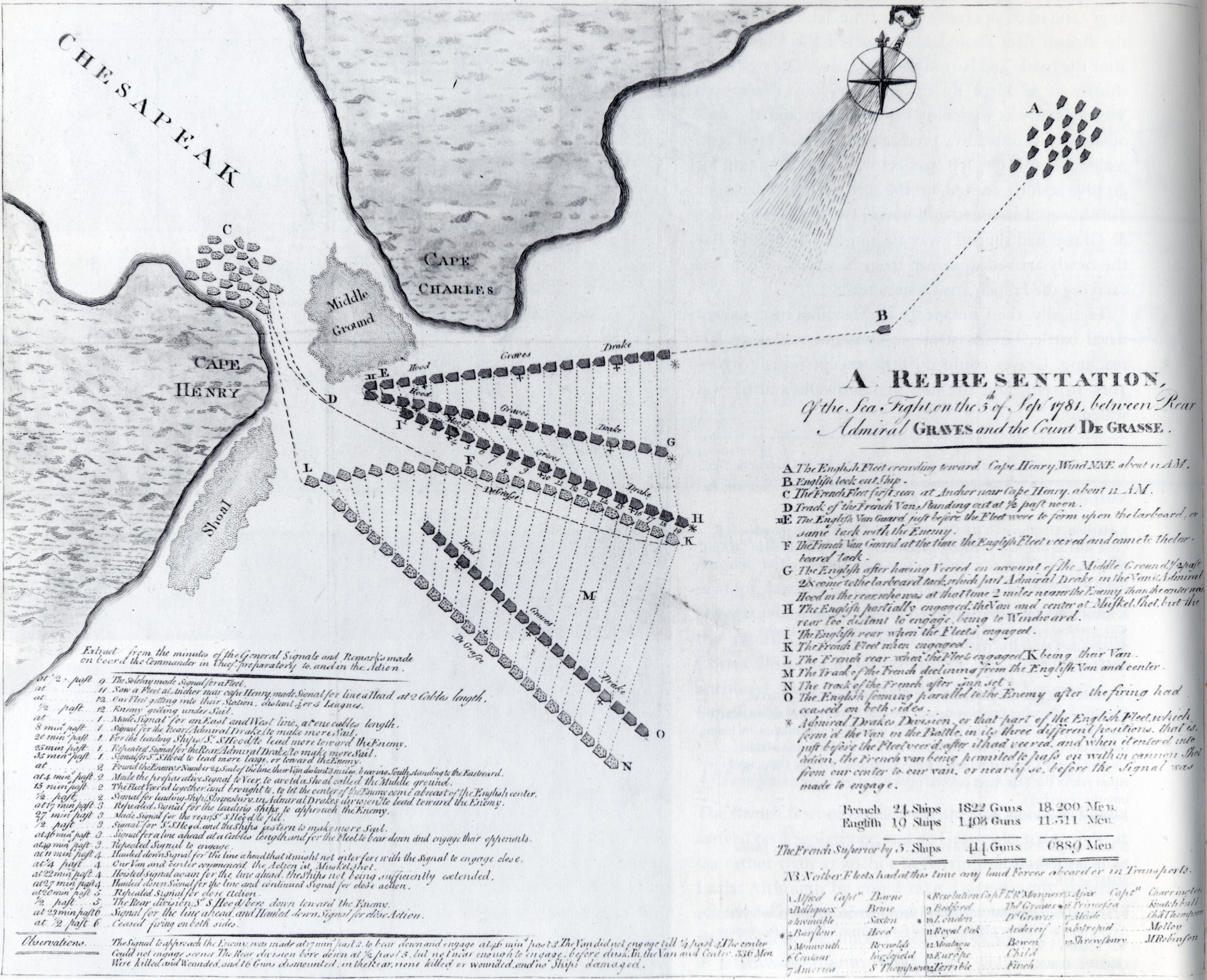 A Representation of the Sea Fight on the 5th of Sept 1781 between Rear Admiral Graves and the Count De Grasse; engraving; the Political Magazine VI, London, 1784